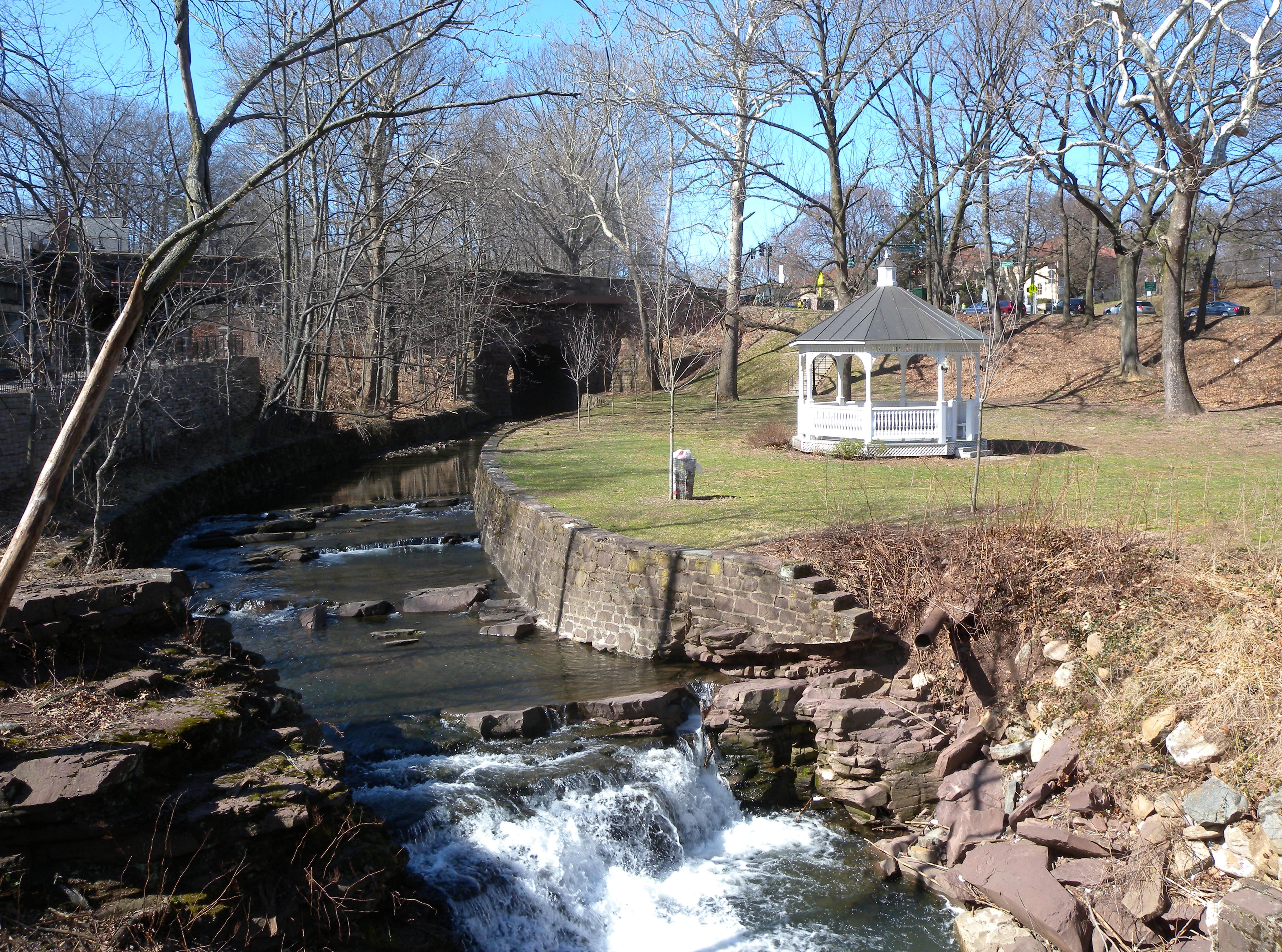 Looking north along Toney's Brook from footbridge at a gazebo on a former mill site on a sunny early afternoon.